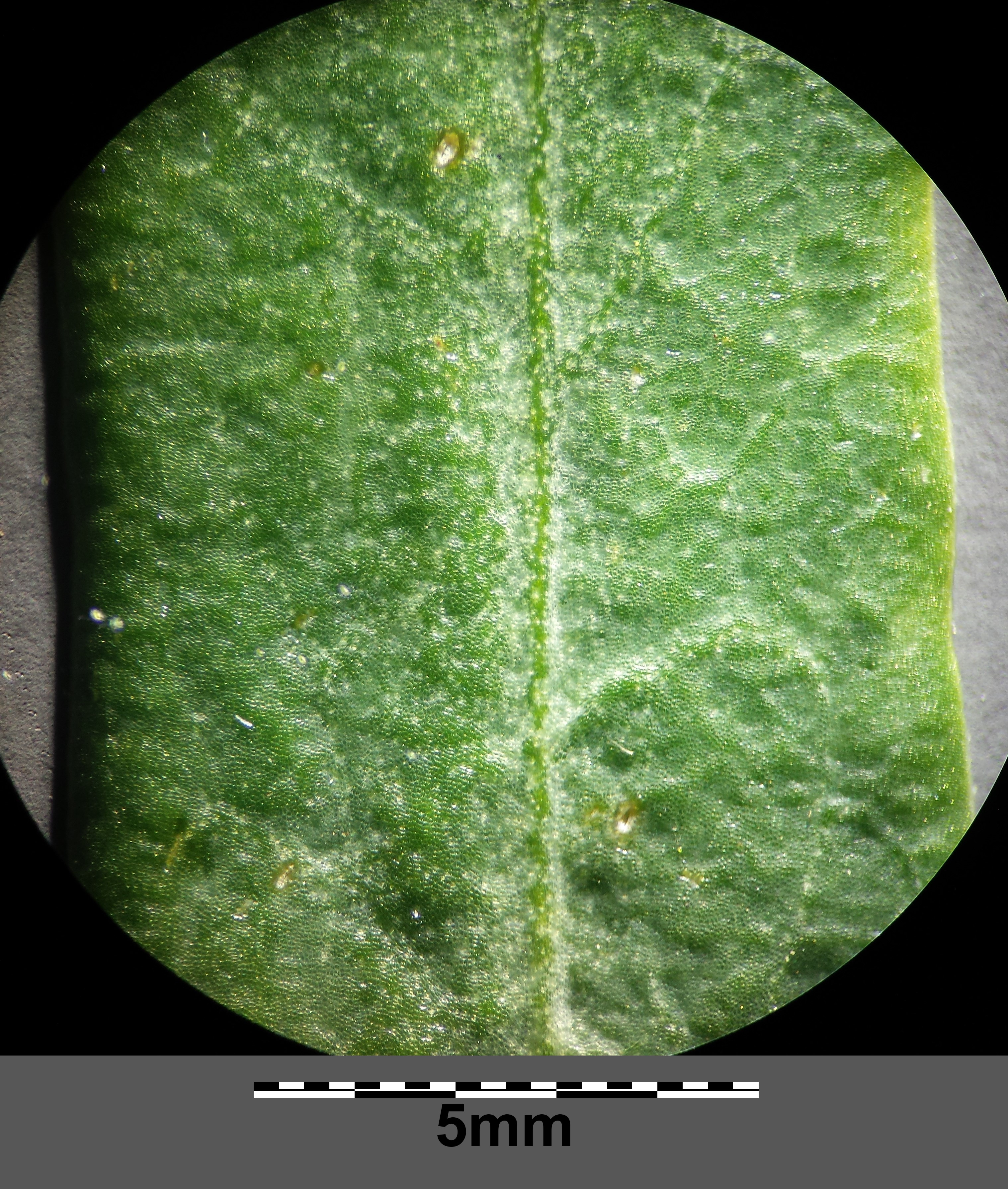 Top side of leaf, stomata cumulated next to central leaf vein Taxonym: Euphorbia esula ss Fischer et al. EfÖLS 2008 ISBN 978-3-85474-187-9 Location: Floridsdorf rail station, Vienna-Floridsdorf - ca. 160 m a.s.l. Habitat: sandy area